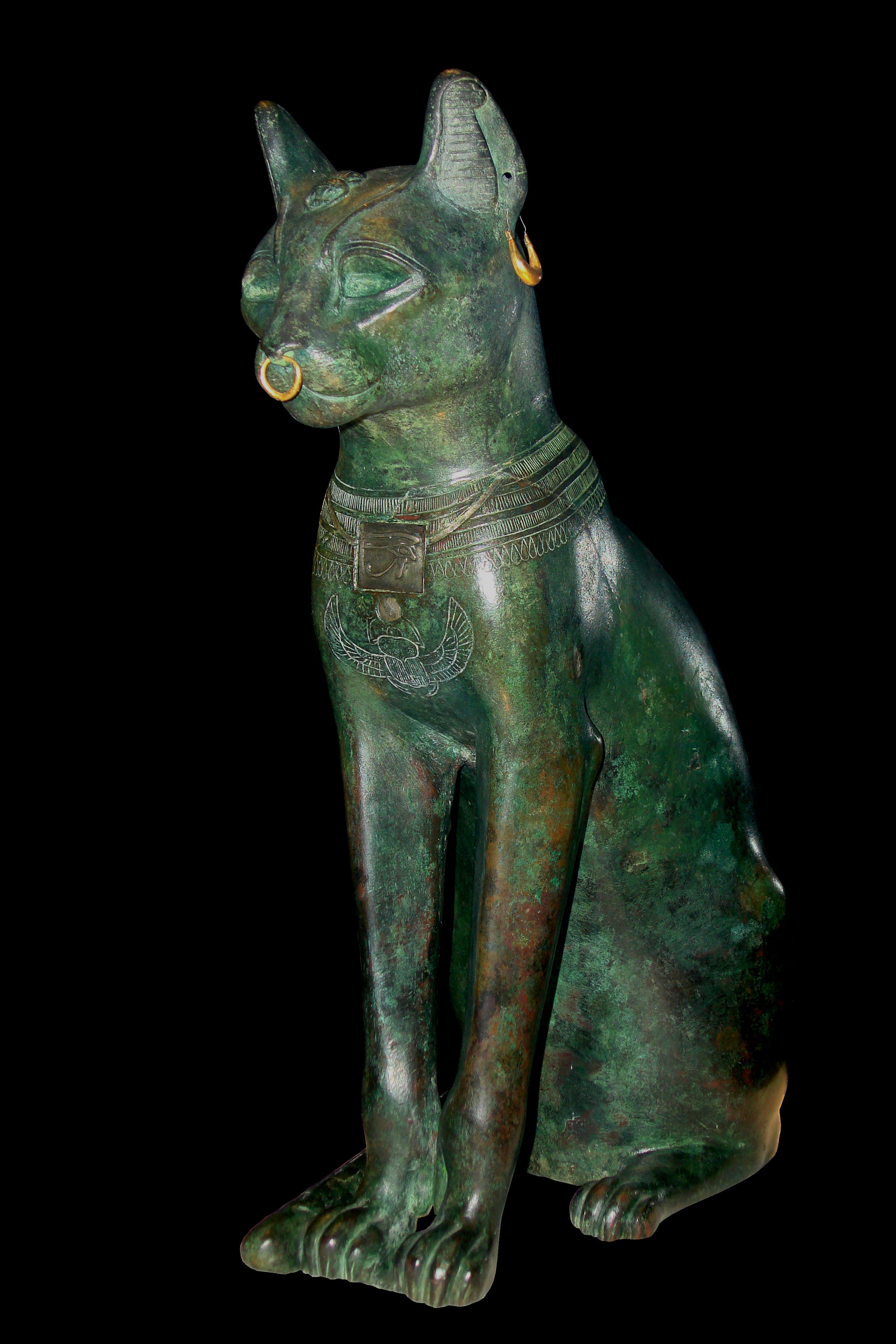 Gayer-Anderson Cat; Made out of bronze, from the Late Period about 664-332 BC. It is a representation of the cat-goddess Bastet. The cat wears jewellery and a protective wedjat amulet. A winged scarab appears on the chest and head. This sculpture is now known as the Gayer-Anderson cat, after its donor to The British Museum.